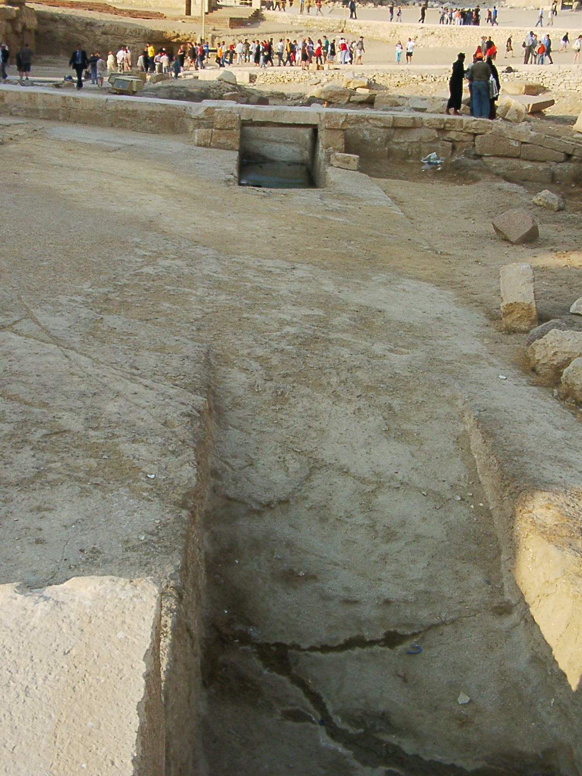 Water tunnels in front of Khafre's Valley Temple entrances, function unknown. See Miroslav Verner's Pyramids, Cairo University Press, ISBN 9774247035, p232.